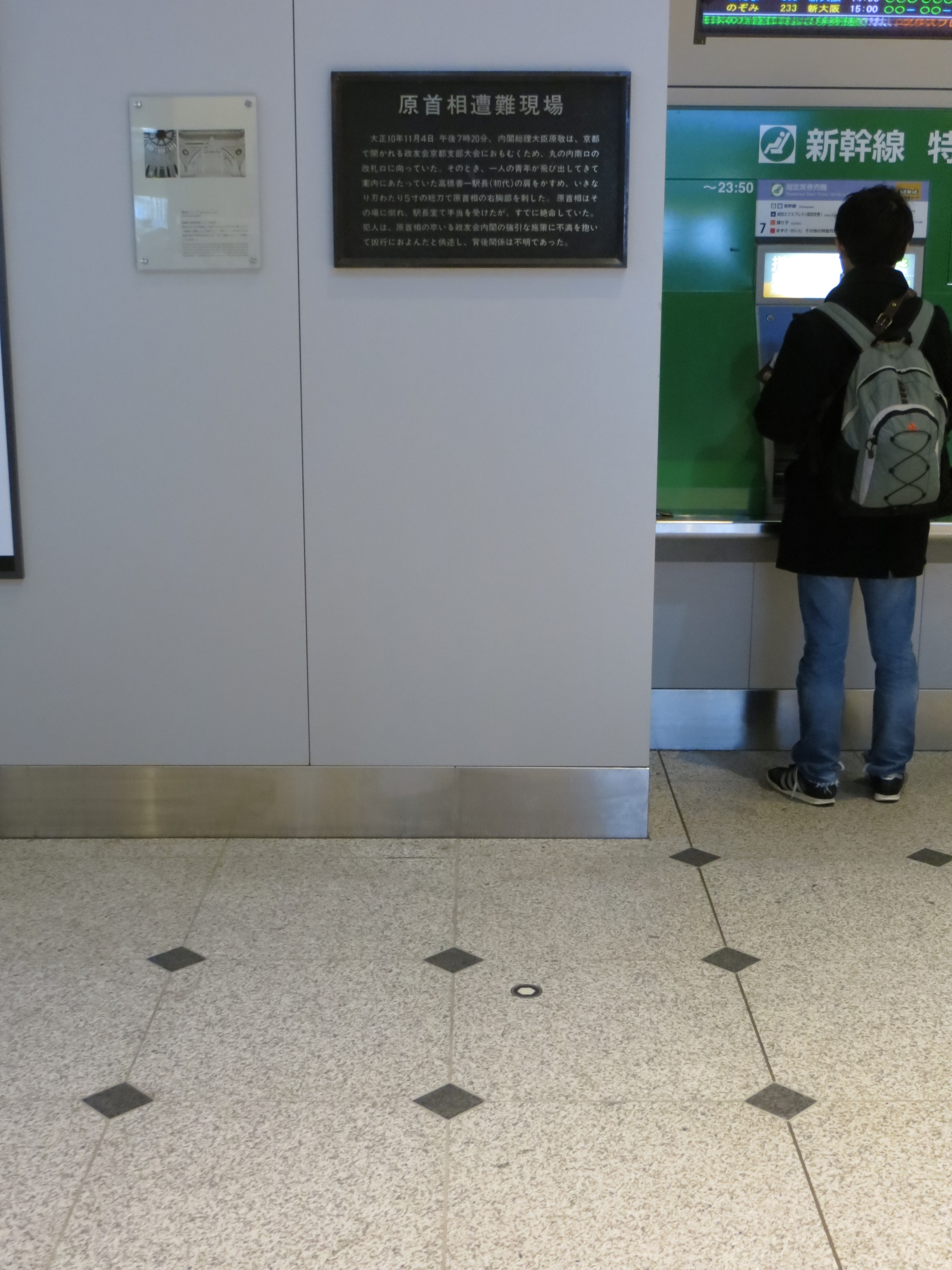 Plaque for assassination site of Hara Takashi — in the Tokyo Station (Marunouchi building).